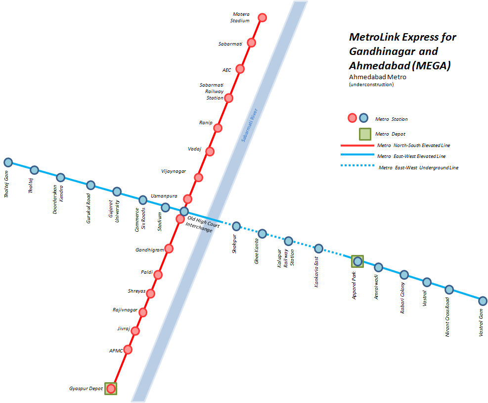 Network Map of underconstruction MetroLink Express for Gandhinagar and Ahmedabad (MEGA). Metrorail of Ahmedabad, Gujarat, India